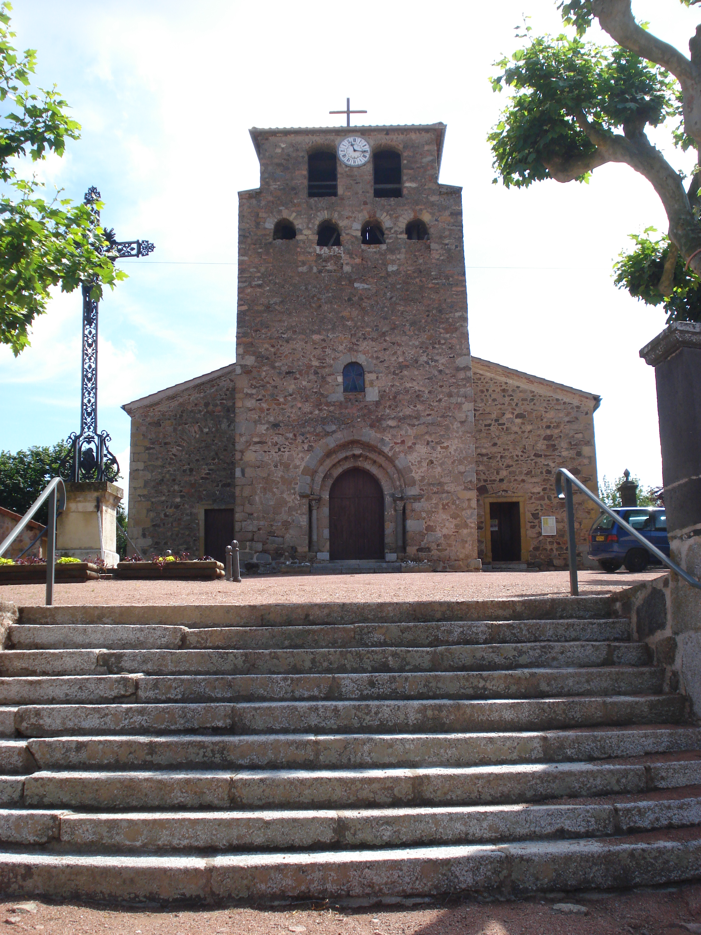 St.Jean-St.Maurice-sur-Loire, église de St.Jean.